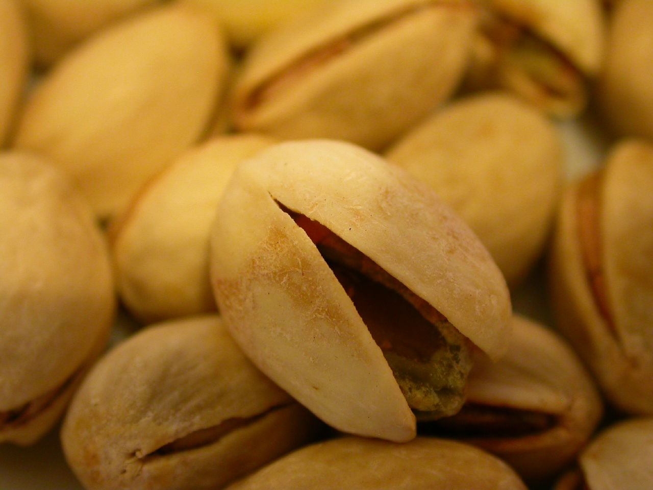 Pistachios